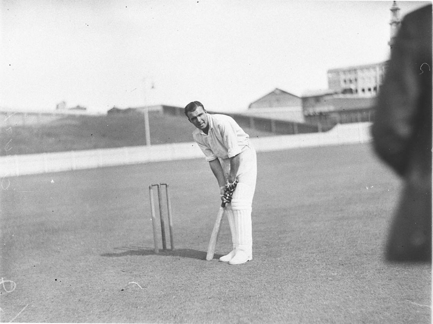 Study of England batsman [Les Ames]